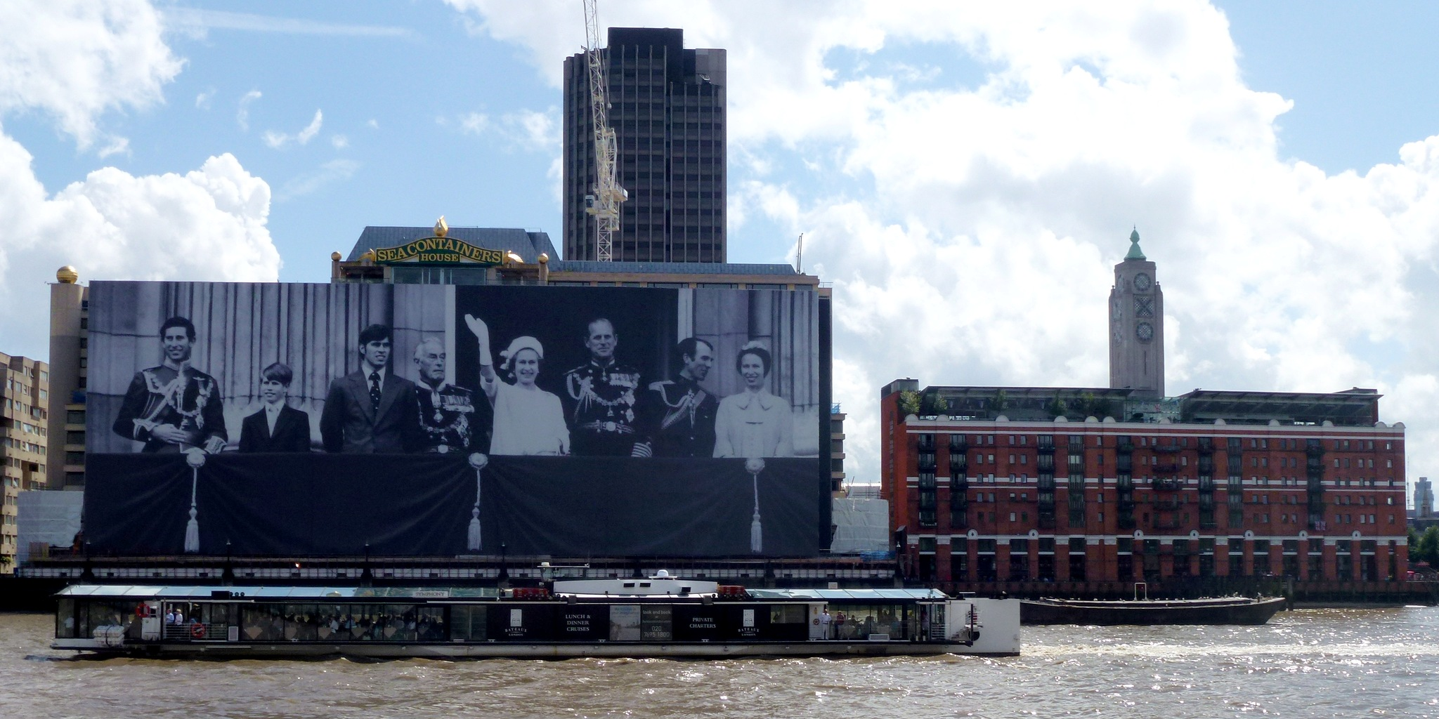 The Sea Containers House decorated for Queen Elizabeth II's Diamond Jubilee and the OXO Tower in August 2012.